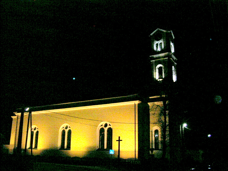 Church of Saint Andrew in Krásno nad Kysucou, Slovakia